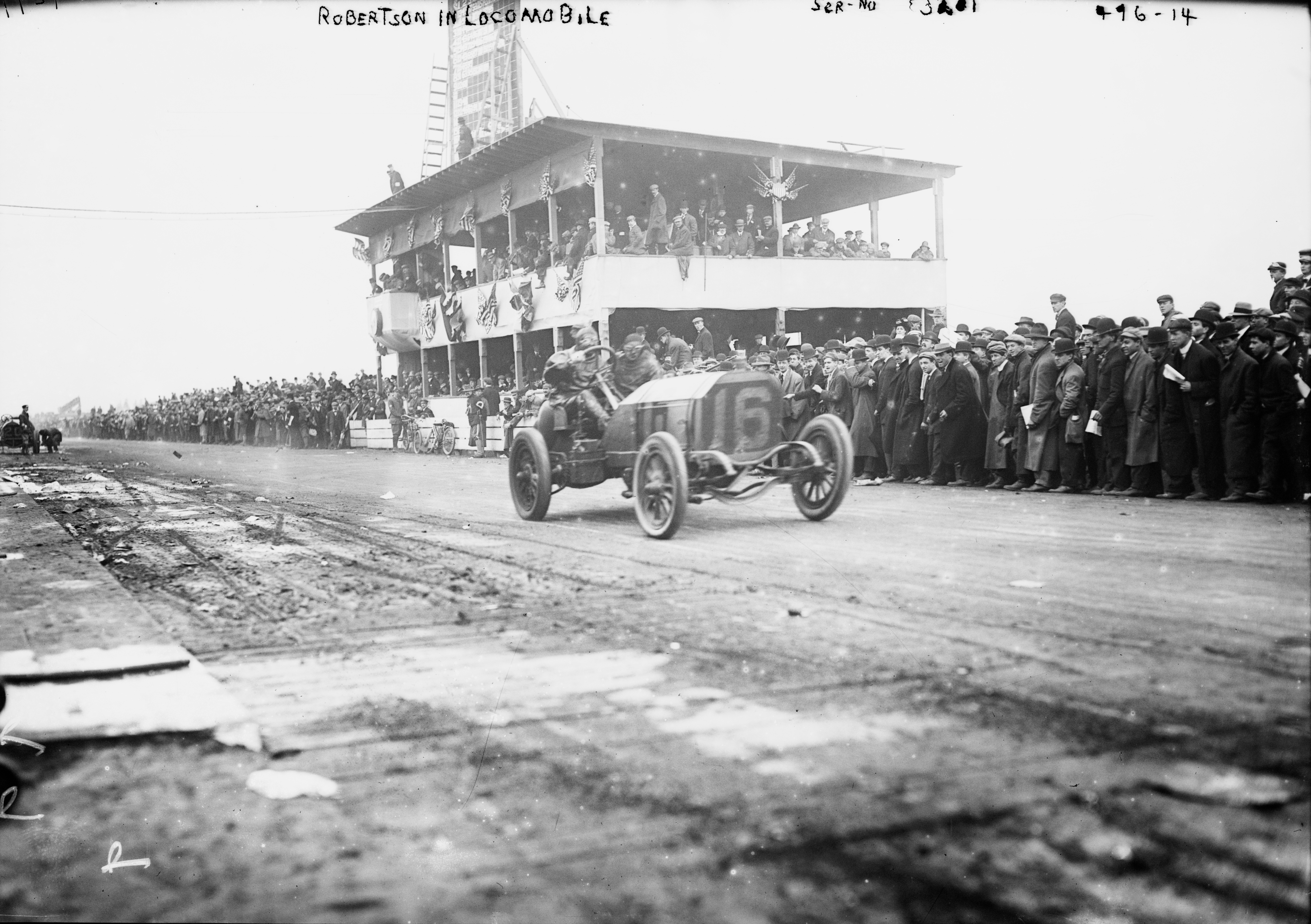 Joe Robertson at the 1908 Vanderbilt Cup race